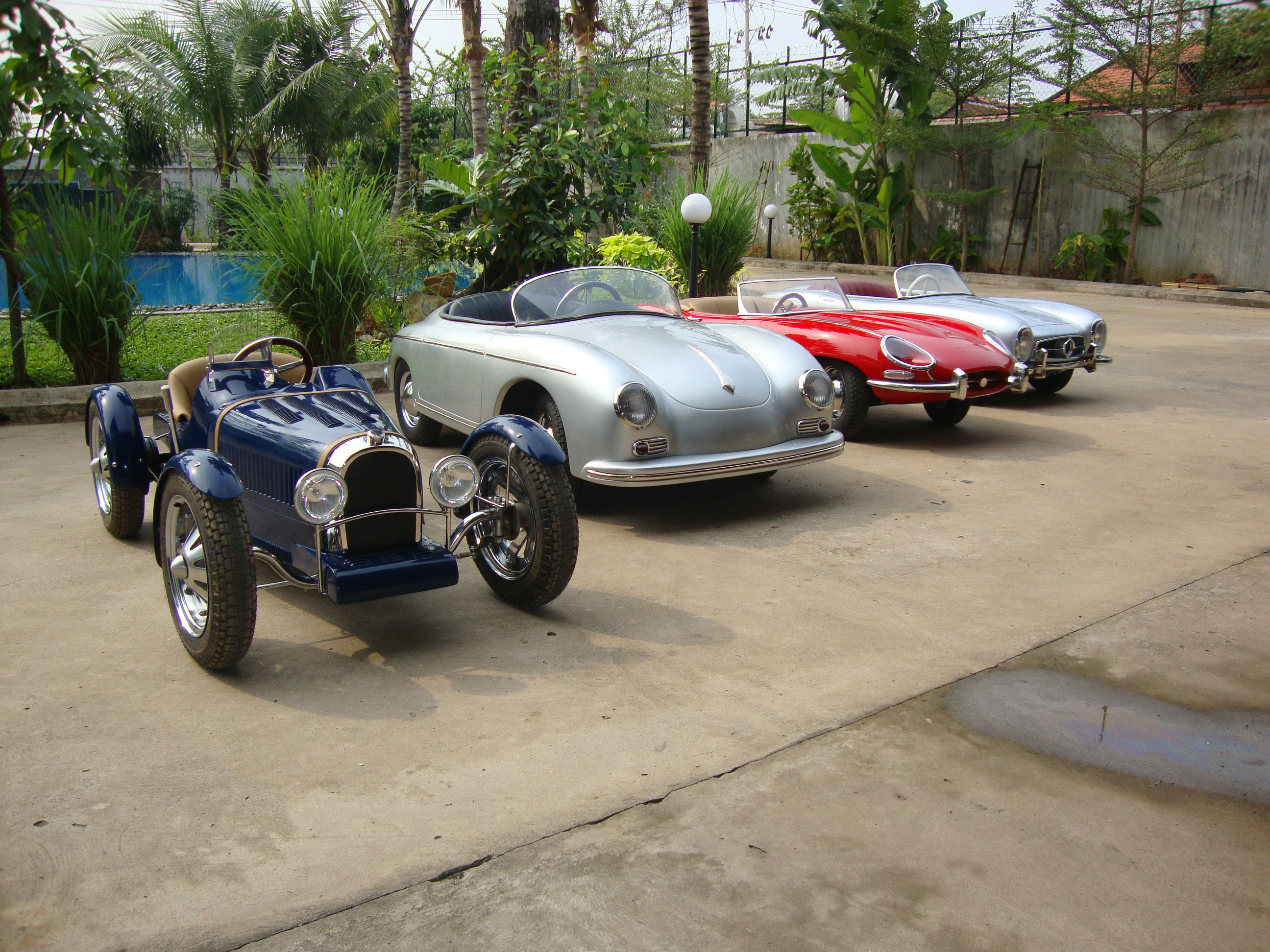 4 examples of Pocket Classics